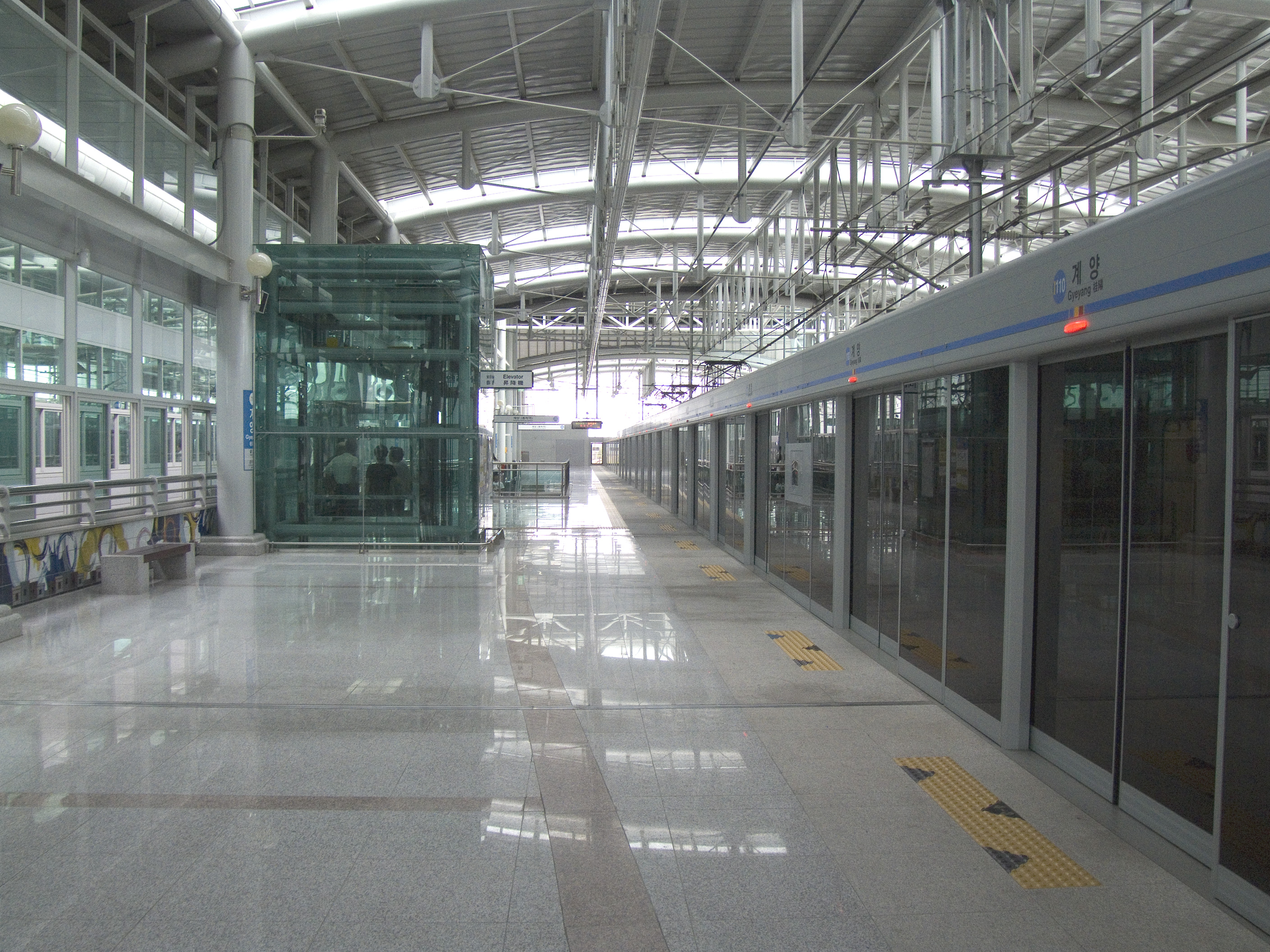 A platform at Gyeyang Station on the Incheon Subway Line 1